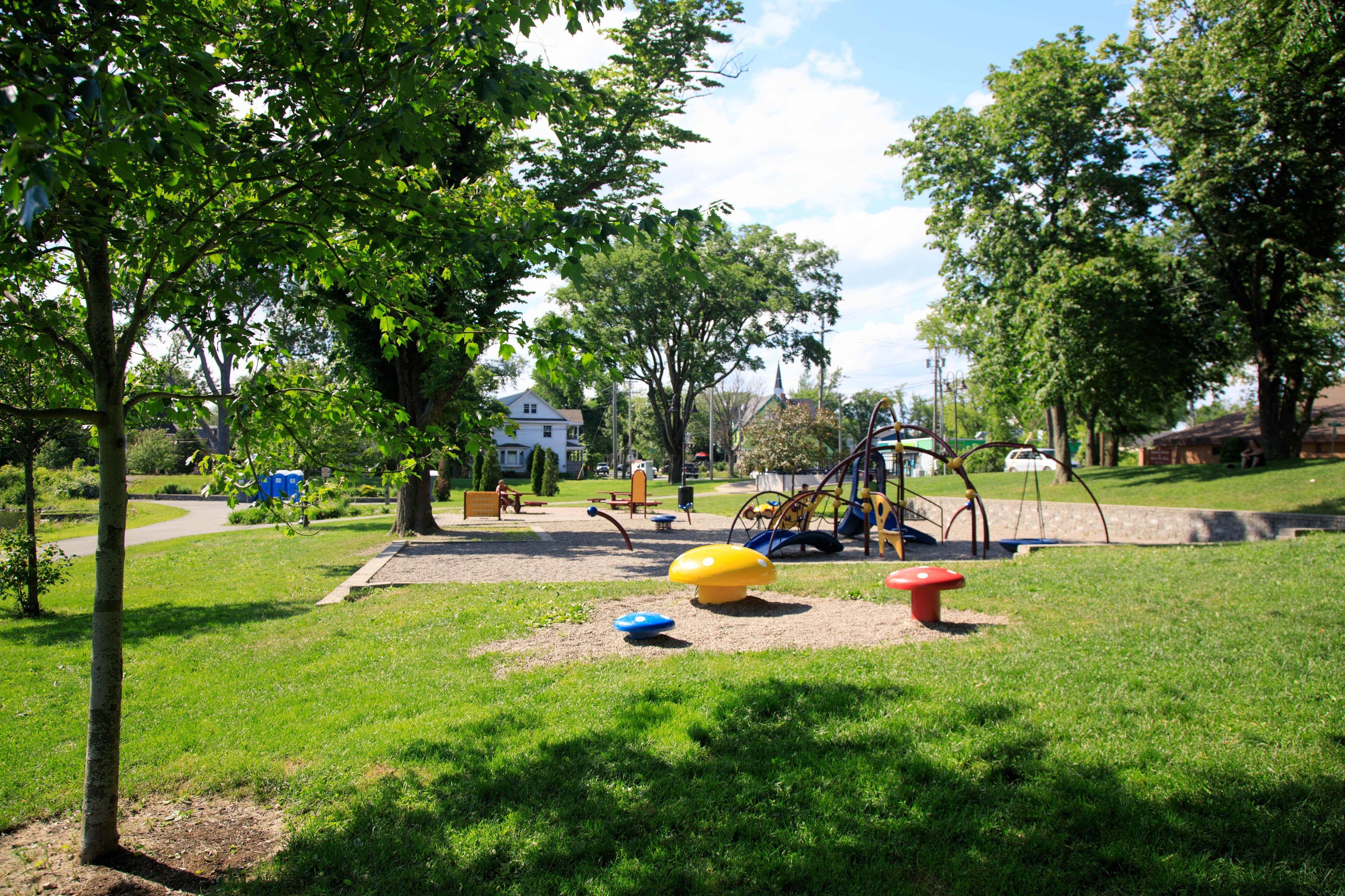 This is the tot Playground in Wentworth Park, a Canadian urban park located in Sydney, part of Nova Scotia's Cape Breton Regional Municipality. The park incorporates the the Kiwanis Banshell, a small network of paved paths, as well as a Playground. The park centres around Wentworth Creek, which form a series of interconnected ponds running through the park. Much of the park is lawn, suitable for informal recreation, with many towering trees for shade. The park encompass 12 acres (4.9 ha) within the former city's boundaries.